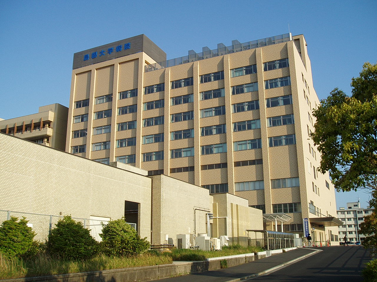 Shimane University Hospital "Building C", located in Izumo, Shimane, Japan.